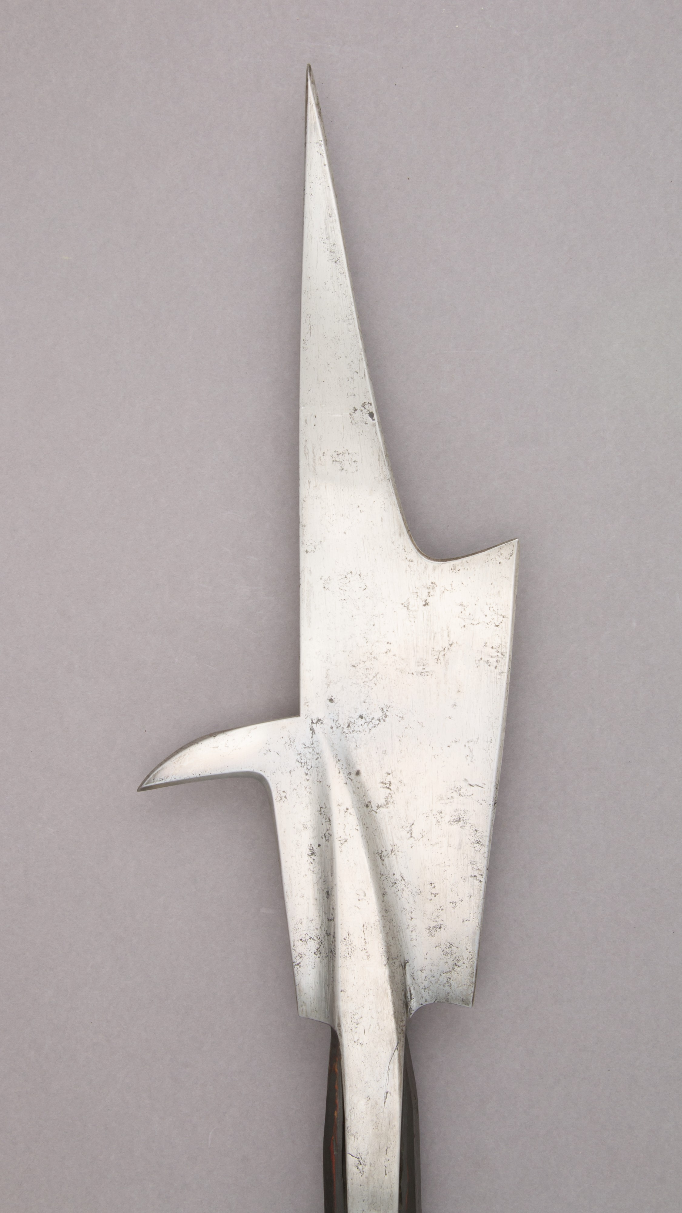 Swiss; Halberd; Shafted Weapons